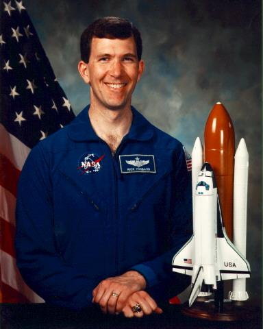 Richard Douglas Husband, U.S. astronaut